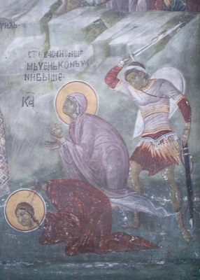 St. Vassa, icon from monastery Gračanica, painted around 1318. Српски (ћирилица): Света Васа, икона из манастира Грачаница настала око 1318. године